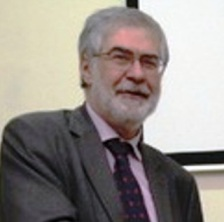 Deputy Chief of Mission Kent Logsdon together with Gia Nodia, Director of the International School of Caucasus Studies at Ilia State University